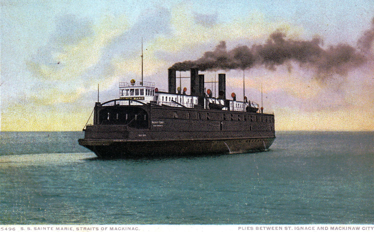 Postcard photo of the Mackinac Transportation Company's train ferry, Sainte Marie. There were two Sainte Maries-one retired in 1911 and one built in 1913. This is the older ship which was built in 1893 and retired in 1911.